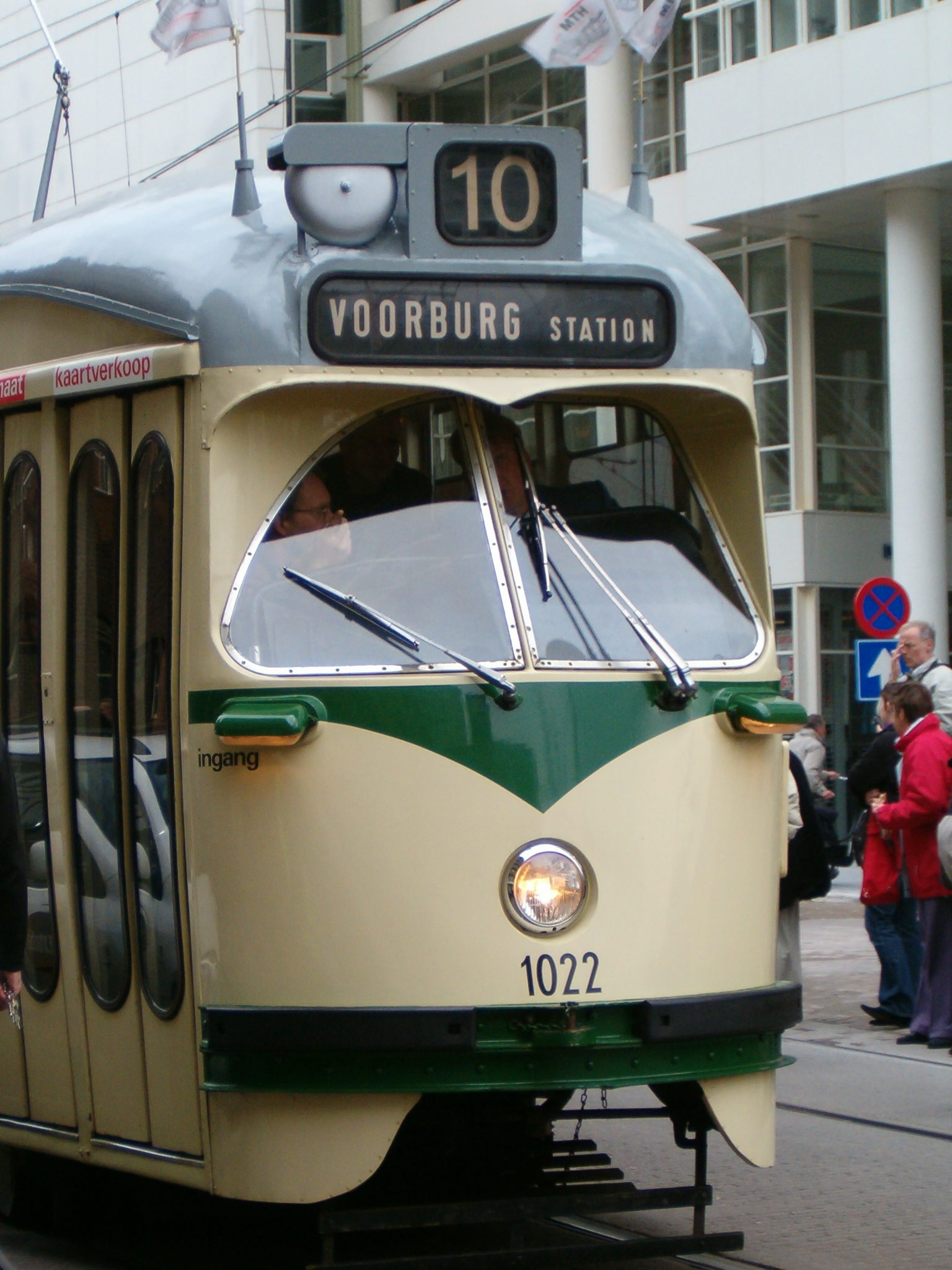 Haagse PCC, tram of the dutch transportation company HTM, in use in the 20th century.